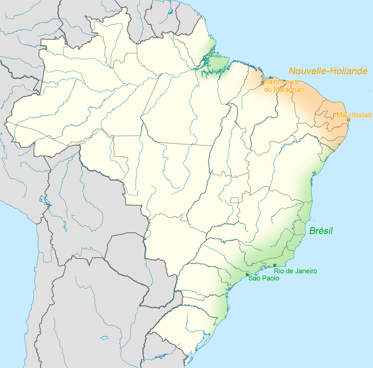 Map of Dutch Brazil in 1644Orange: DutchGreen: Portuguese